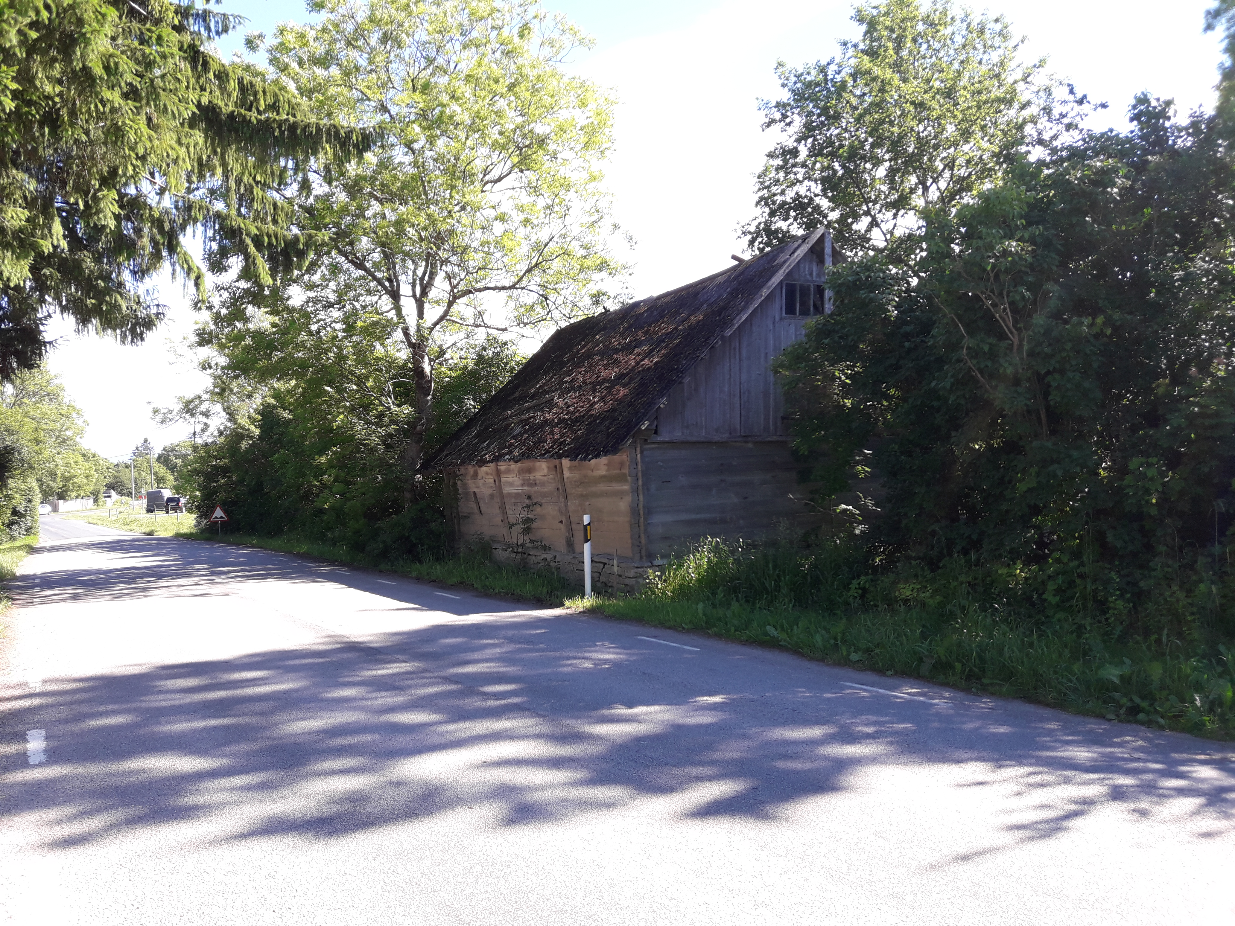 Old building in historical center of Alliku village